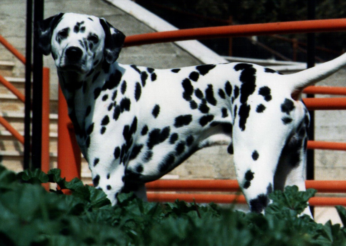 Dalmatian